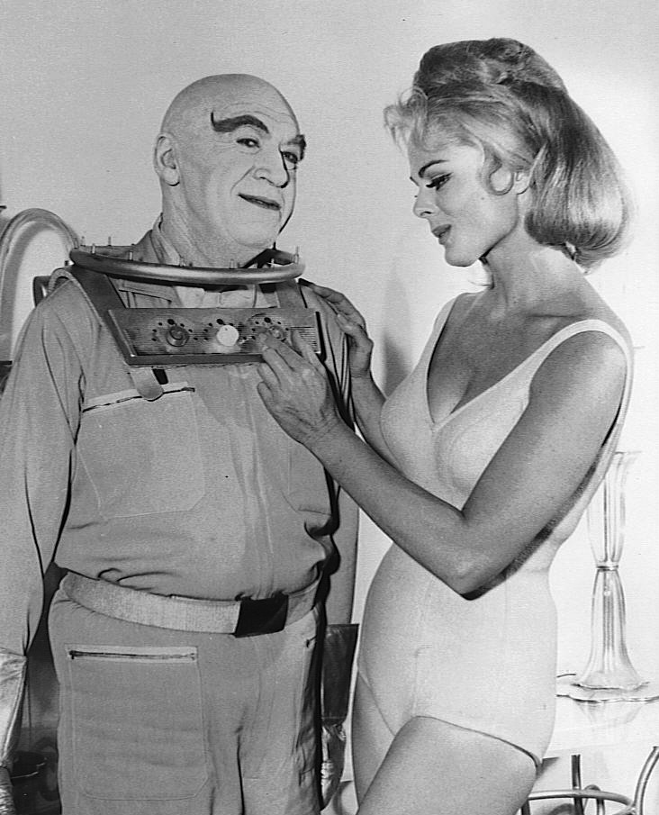 Photo of Otto Preminger as Mr. Freeze and Dee Hartford as Miss Iceland from the television series Batman.